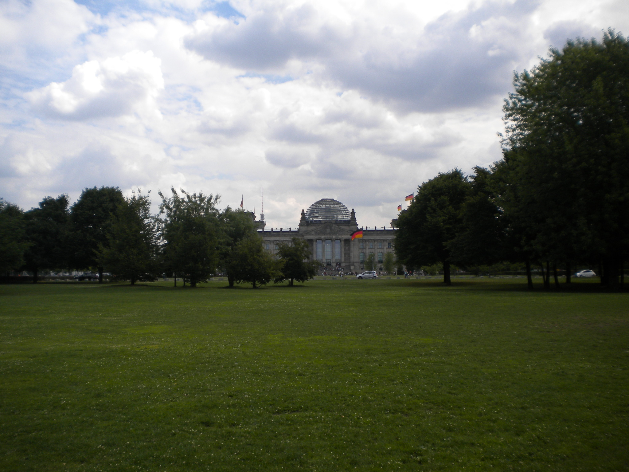 Trees and Grass in Republik Platz